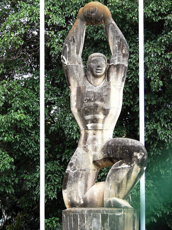 Sculpture by Francisco Narváez